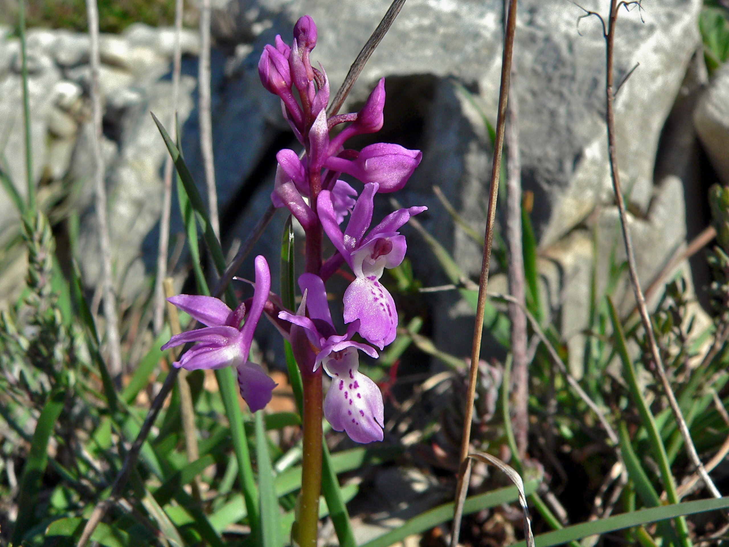 St Vallier-de-Thiey, Alpes-Maritimes, FRANCE